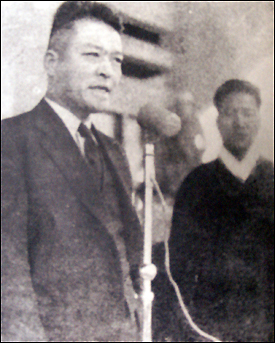 Kim Won-bong, a Korean Independent activists (1946)